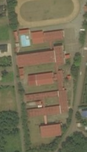 Satellite view